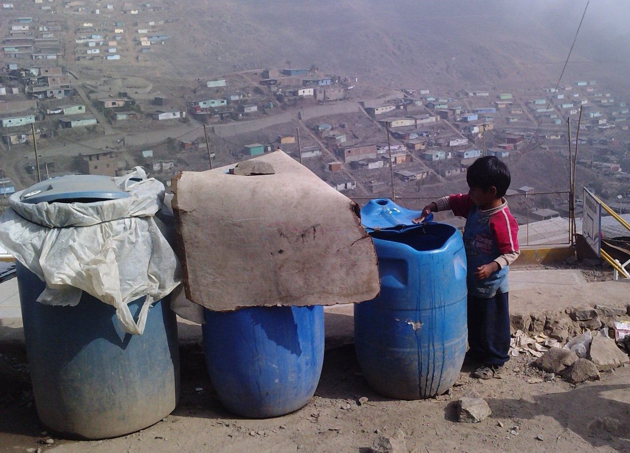 M1